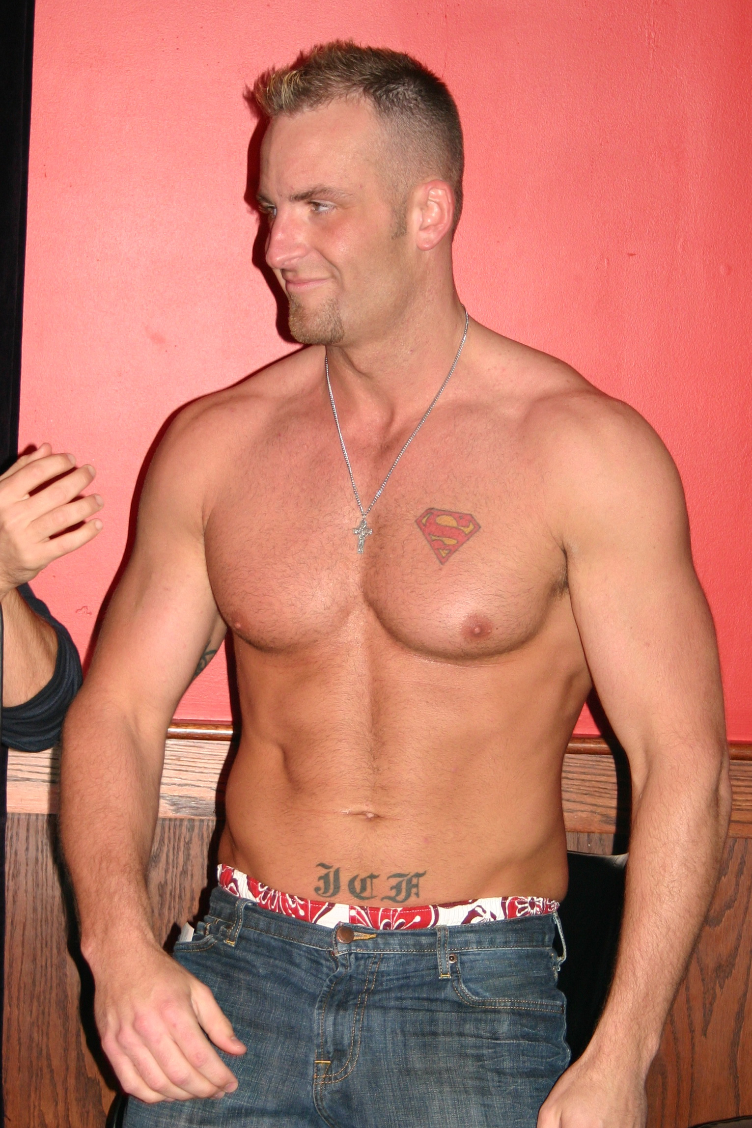 The 2006 Grabby Awards: Cocktails with the Stars at Gentry on State, with host Jason Curious: Tyler Riggz